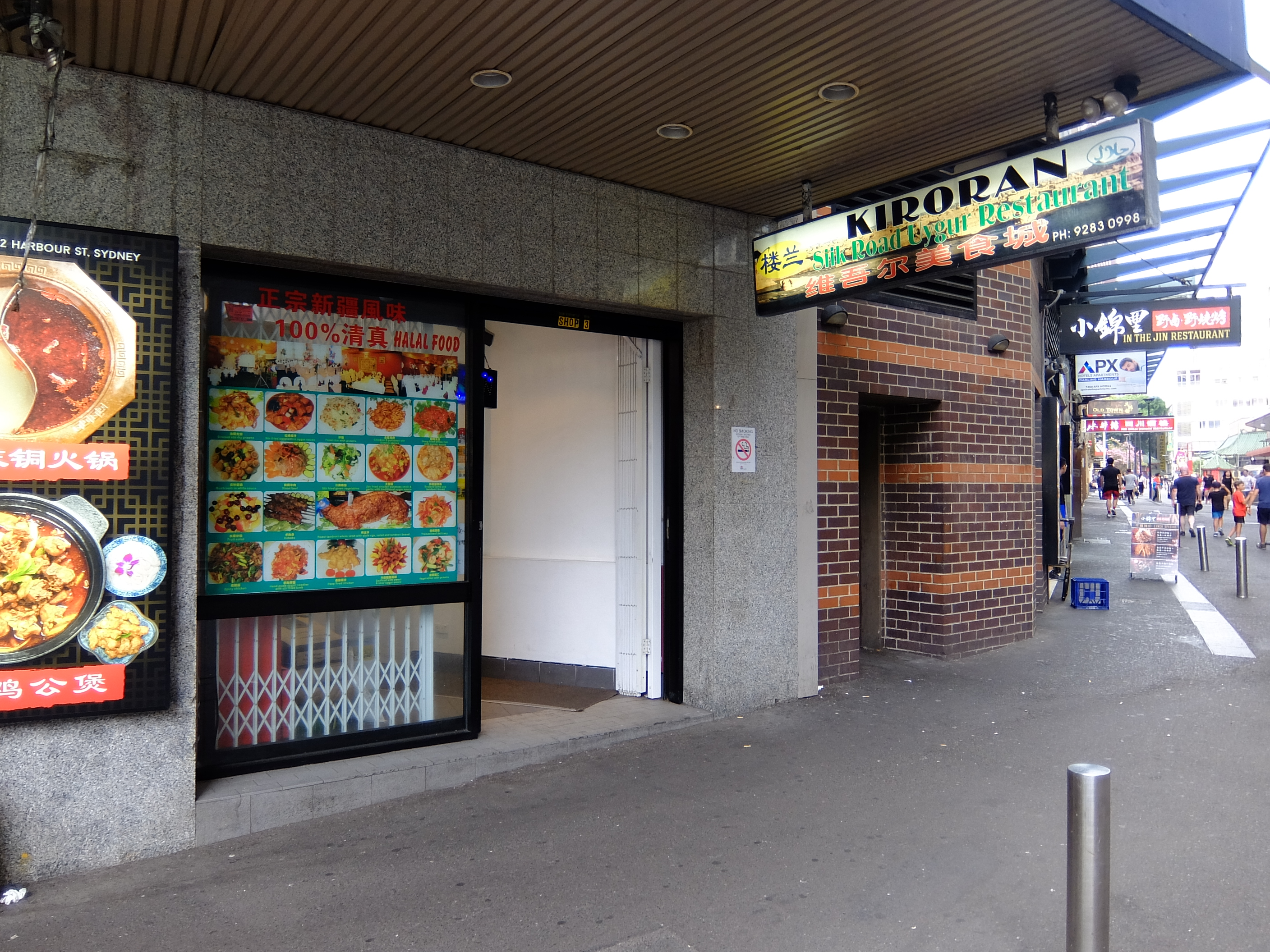 Kiroran Silk Road Uygur Restaurant, Haymarket, Sydney, New South Wales, Australia